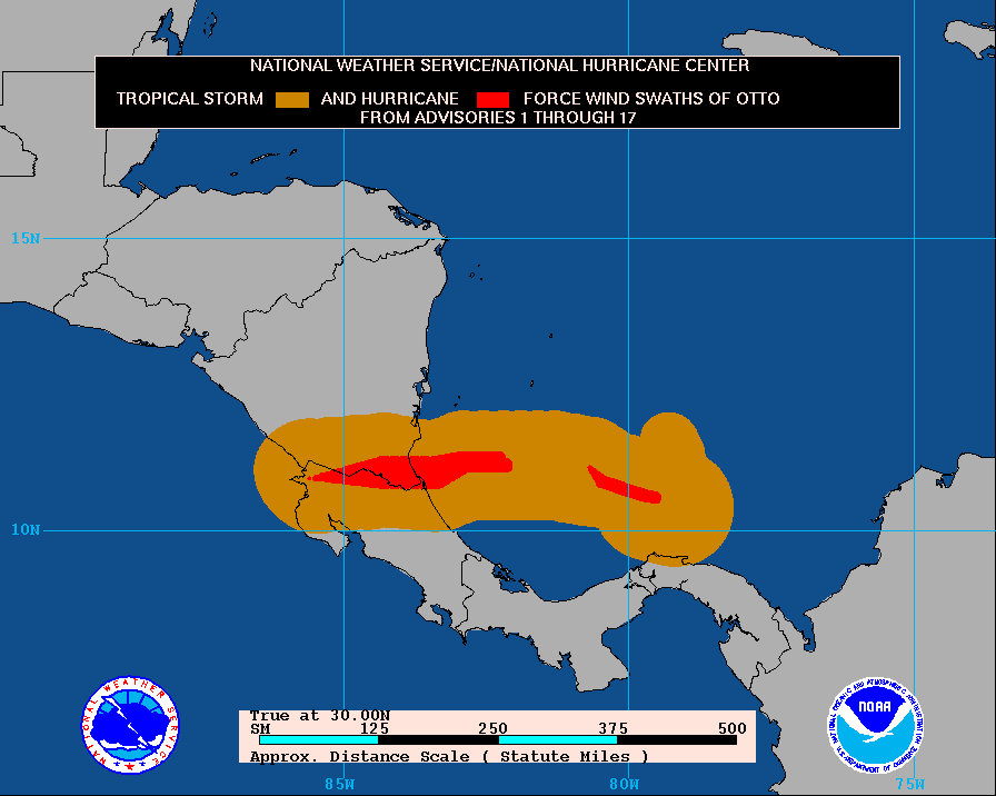 This graphic shows how the size of the storm has changed, and the areas potentially affected so far by sustained winds of tropical storm force (in orange) and hurricane force (in red). The display is based on the wind radii contained in the set of Forecast/Advisories indicated at the top of the figure. Users are reminded that the Forecast/Advisory wind radii represent the maximum possible extent of a given wind speed within particular quadrants around the tropical cyclone. As a result, not all locations falling within the orange or red swaths will have experienced sustained tropical storm or hurricane force winds, respectively.